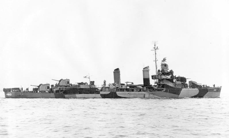 The U.S. Navy destroyer USS Woodworth (DD-460) in 1944.